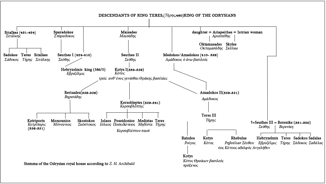 Descendants of King Teres of the Odrysians, genealogical tree of the Odrysian royal house, genealogy of Teres founder of the Odrysian kingdom.There are some dates by certain names, below them some epithets and in all of them their names as they are found in ancient Greek texts.